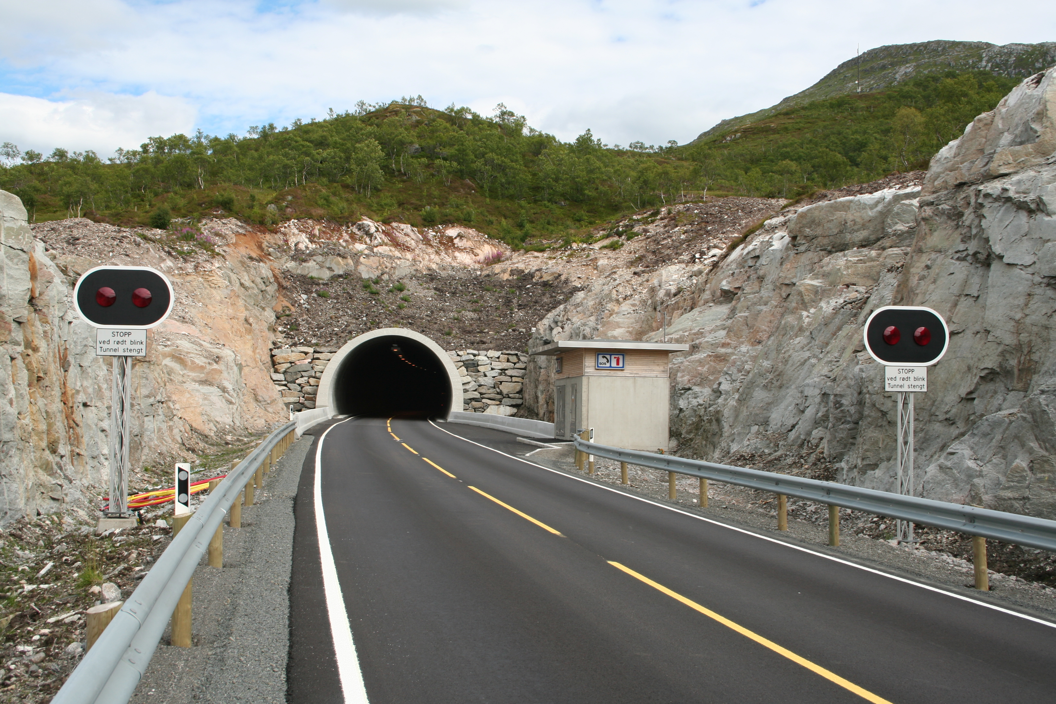 The western portal of Sørdalen Tunnel. The tunnel is 6338 metres long.